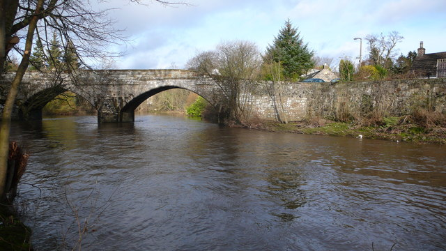 Cramond Brig Looking downstream to the old Cramond Brig.